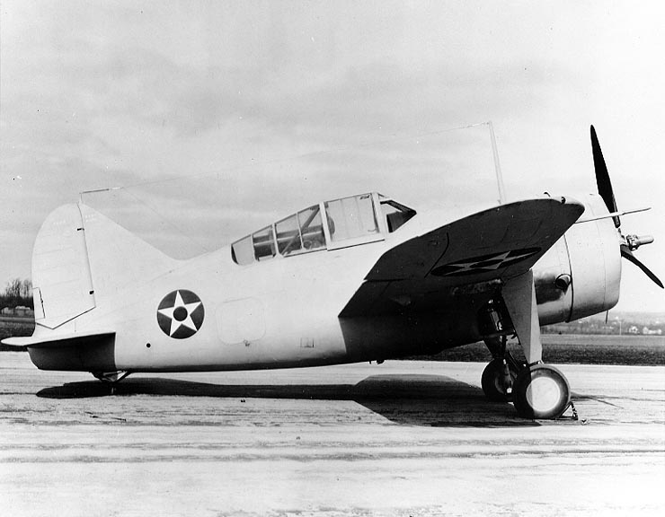 A U.S. Navy Brewster F2A-3 fighter photographed on the ground, circa 1941.